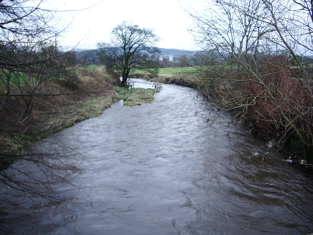 Hyndburn Brook Looking down stream from Mill Lane Bridge